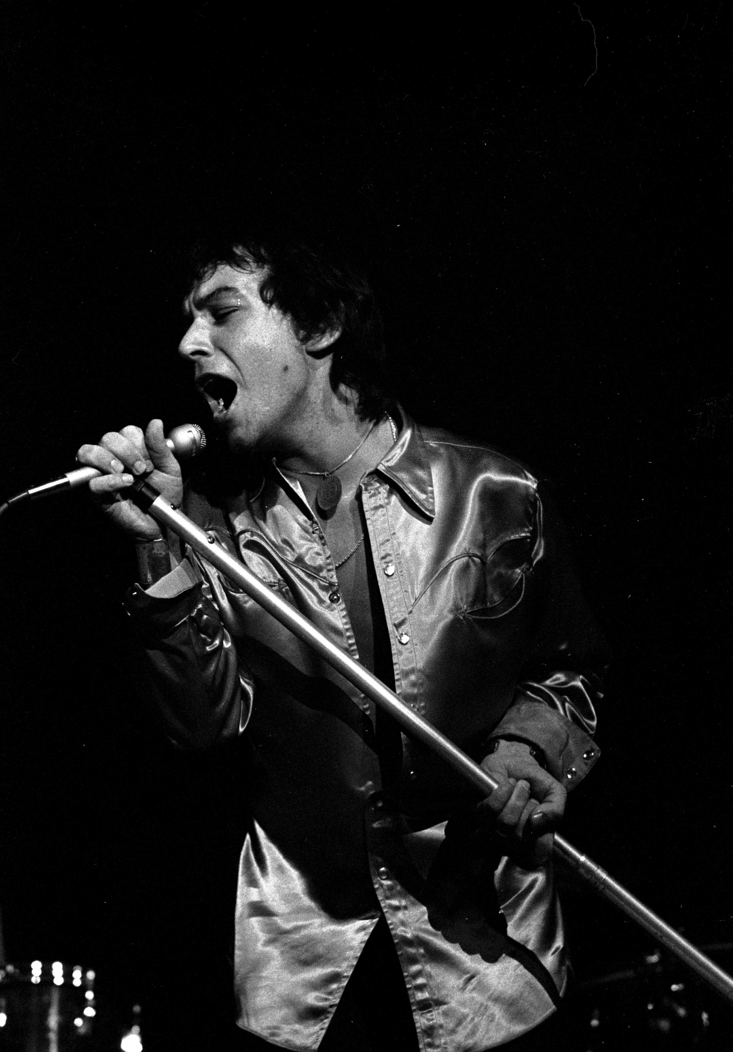 Eric Burdon. Audimax Hamburg, July 1973